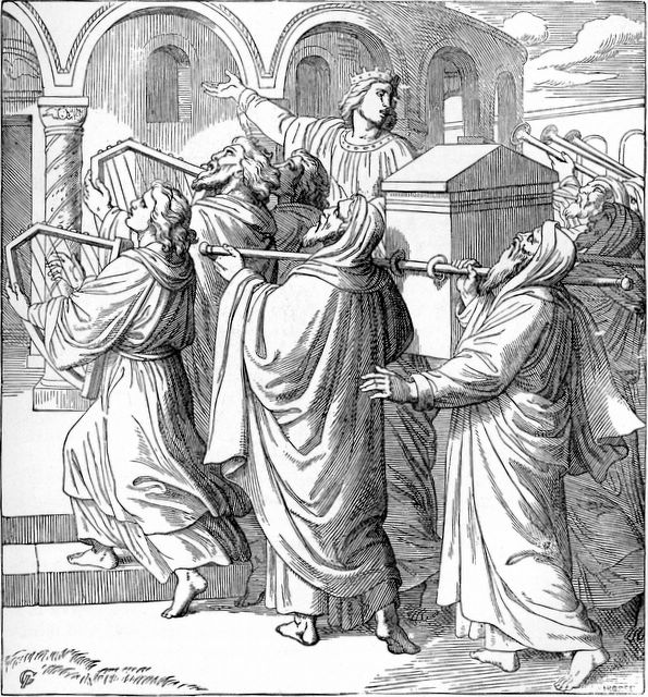 The Ark of the Covenant Brought into the Temple